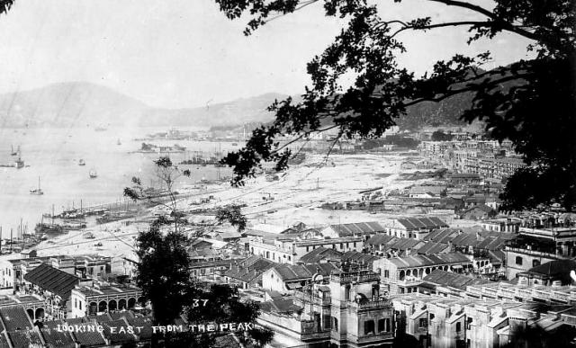 Hong Kong, Praya East Reclamation (1921–1929)